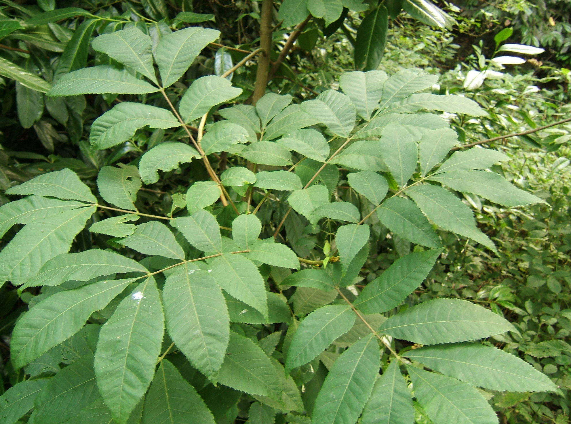 Carya cordiformis foliage - photo MPF Cultivated, UK, from seed from Milwaukee, Wisconsin